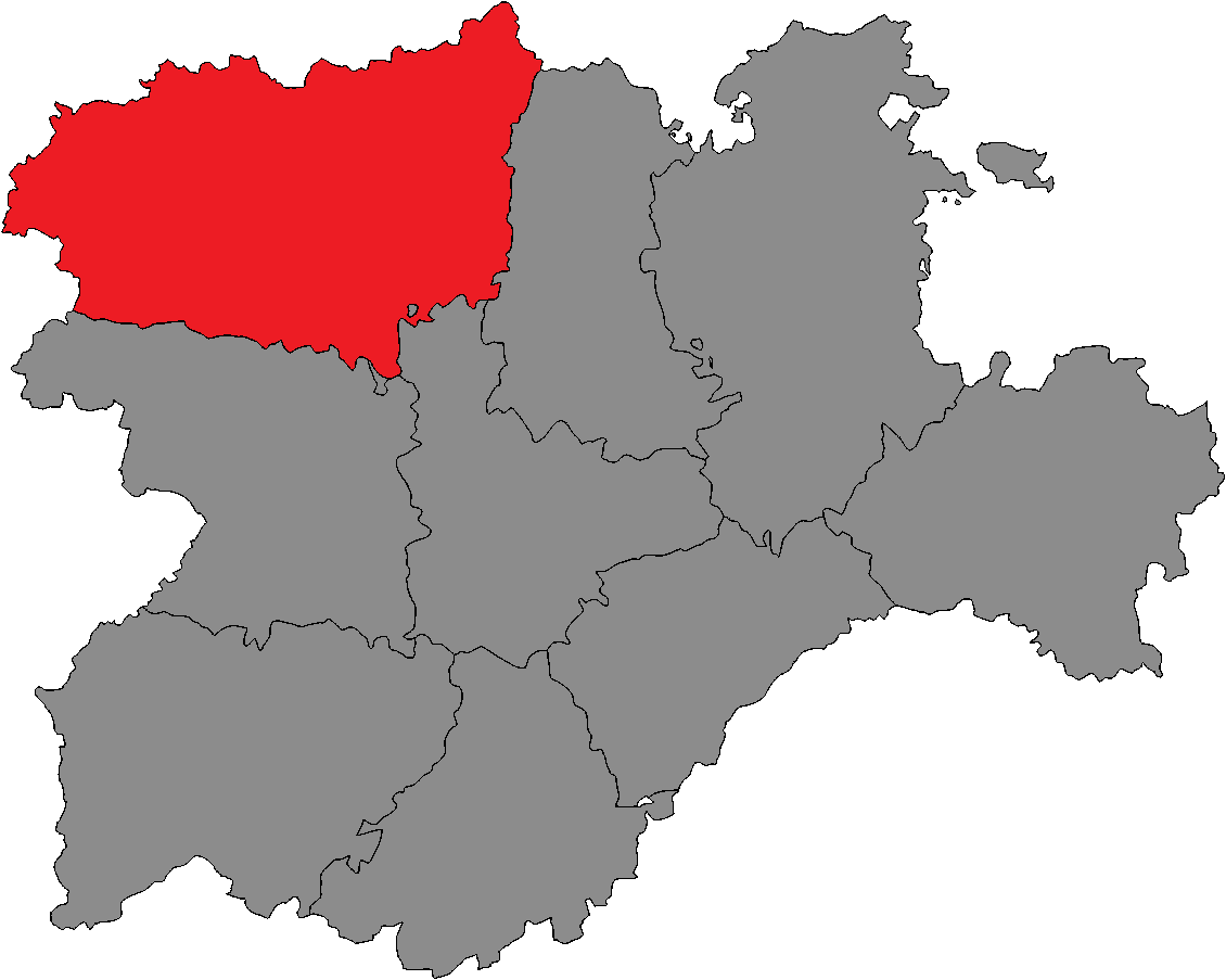 Cortes of Castile and León district of León.